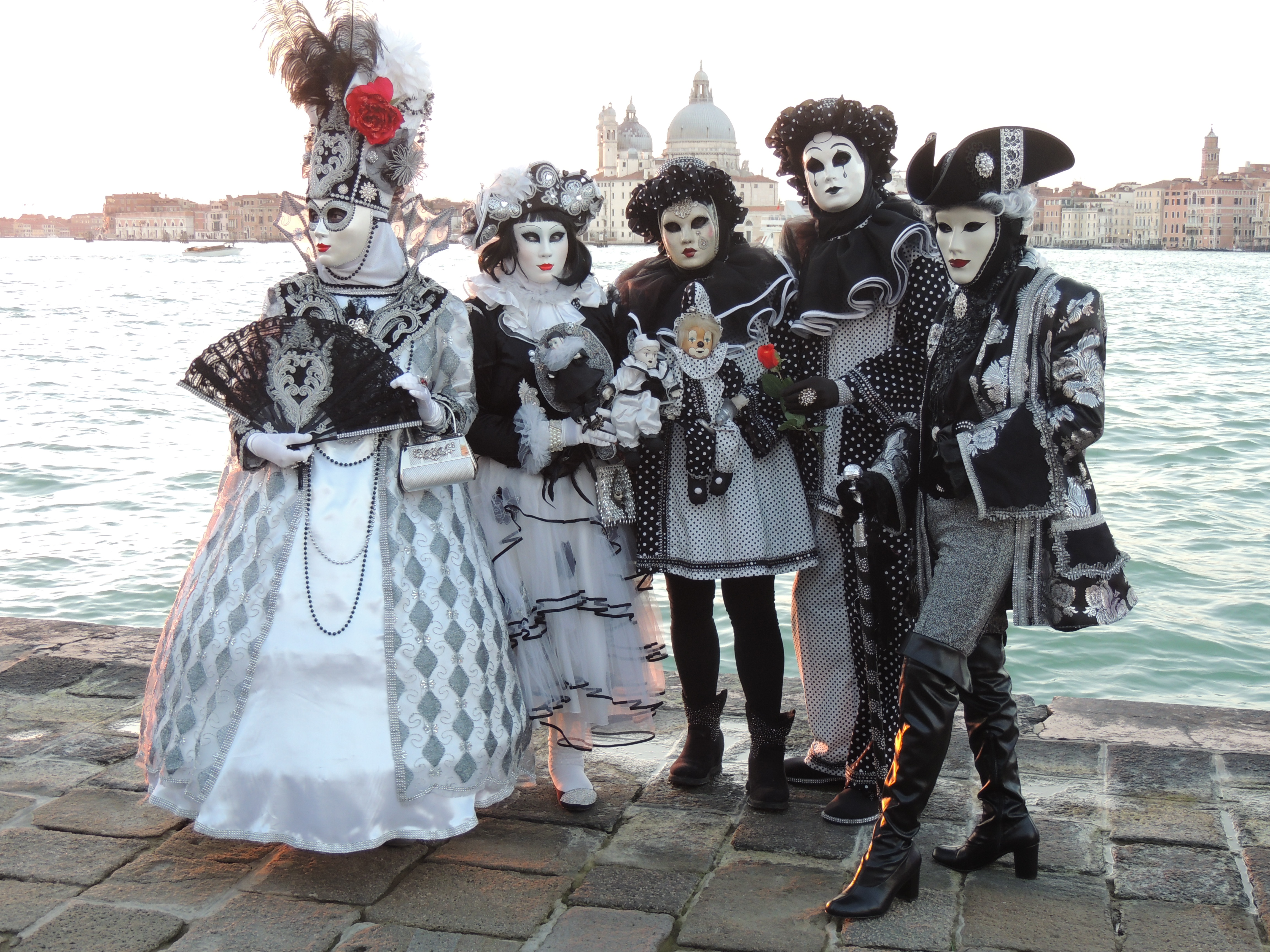 carnival Venice 2015